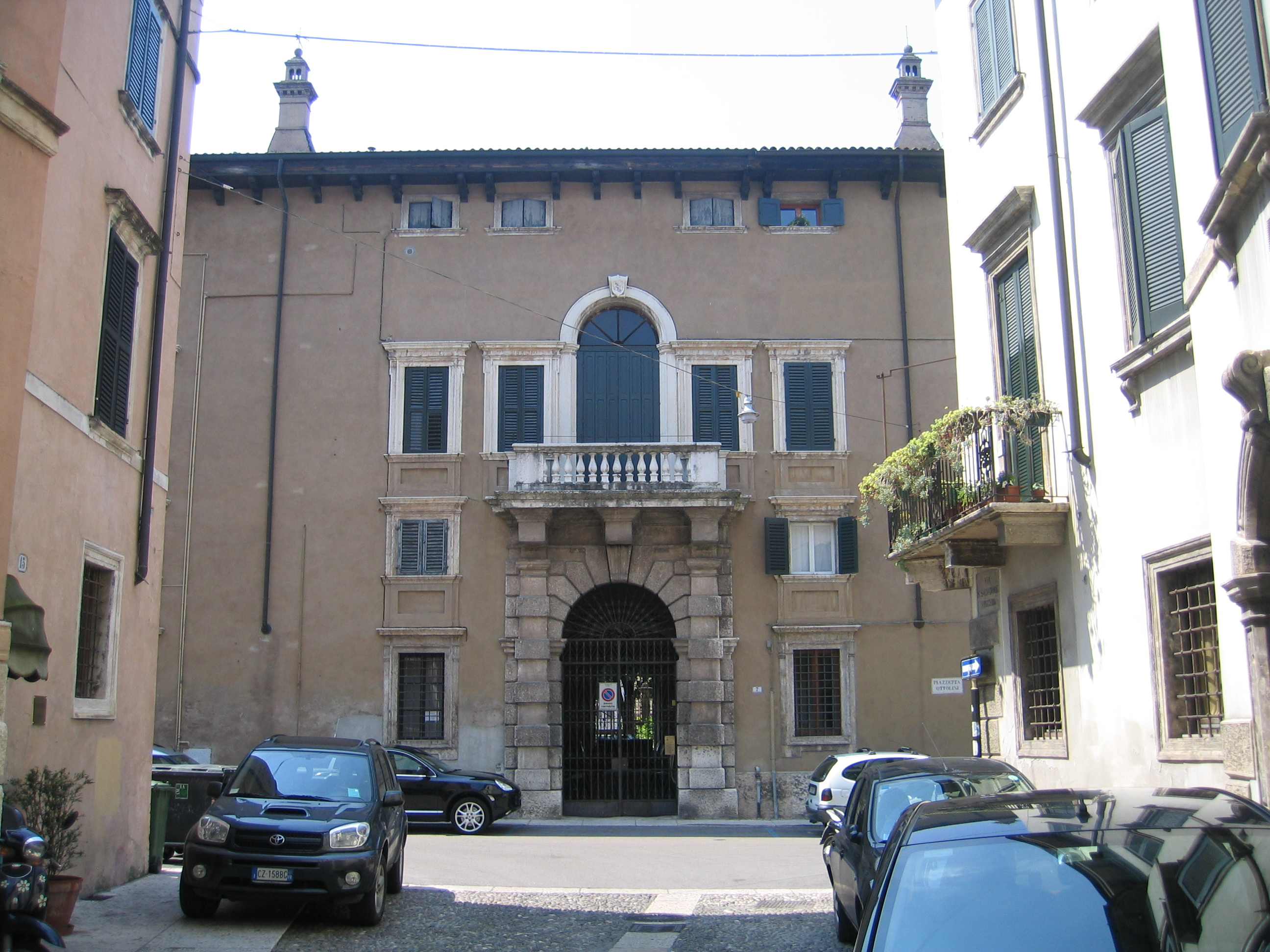 Ottolini Palace in Verona